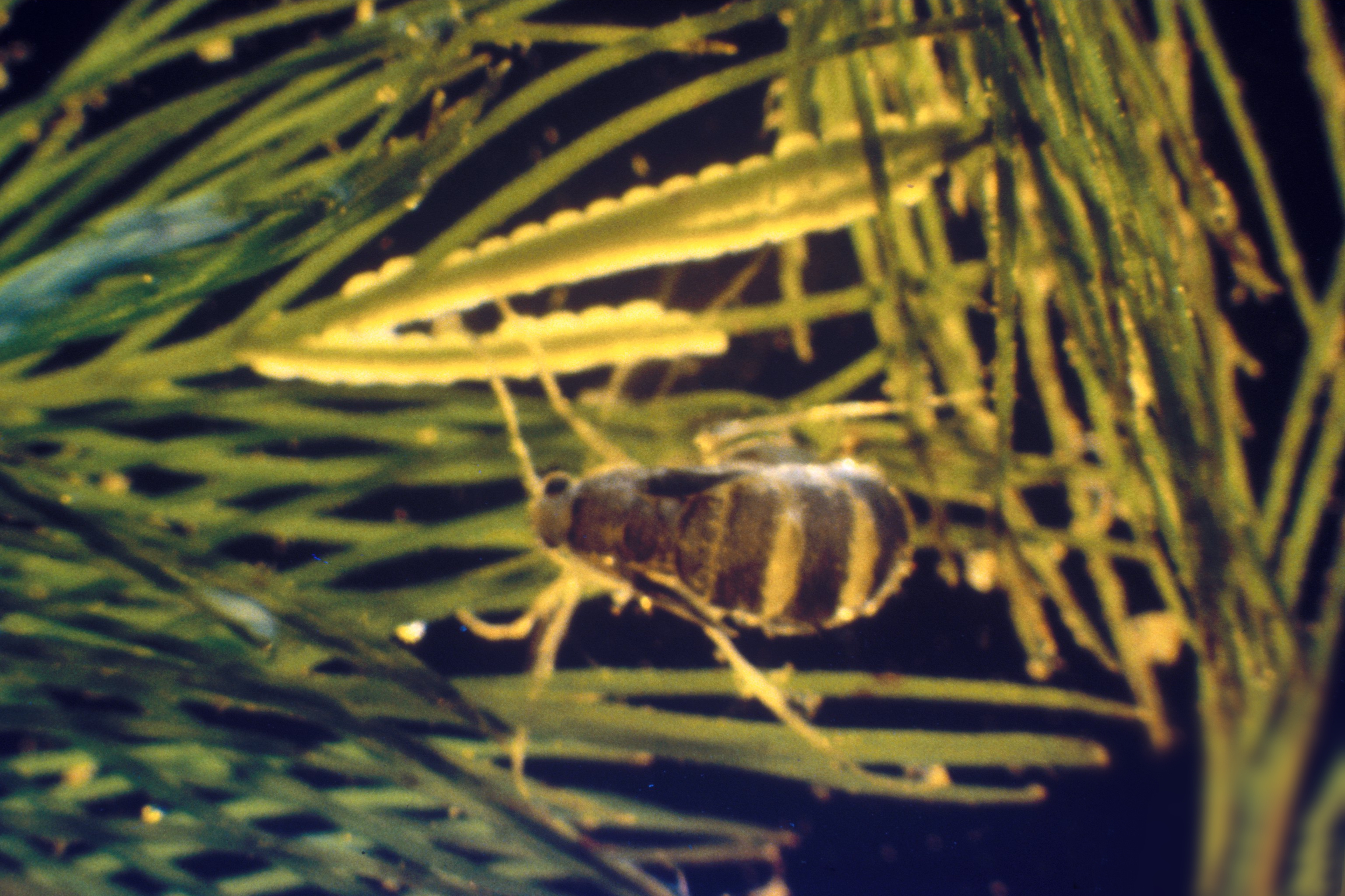 Acentria ephemerella Denis &. Schiffermüller, 1775 Host: Eurasian watermilfoil Myriophyllum spicatum Linnaeus Common Name: milfoil moth Photographer: Robert L. Johnson, Cornell University, United States Descriptor: Adult(s) Description: wingless female and eggs at Cornell University Research Ponds Image taken in: New York, United States